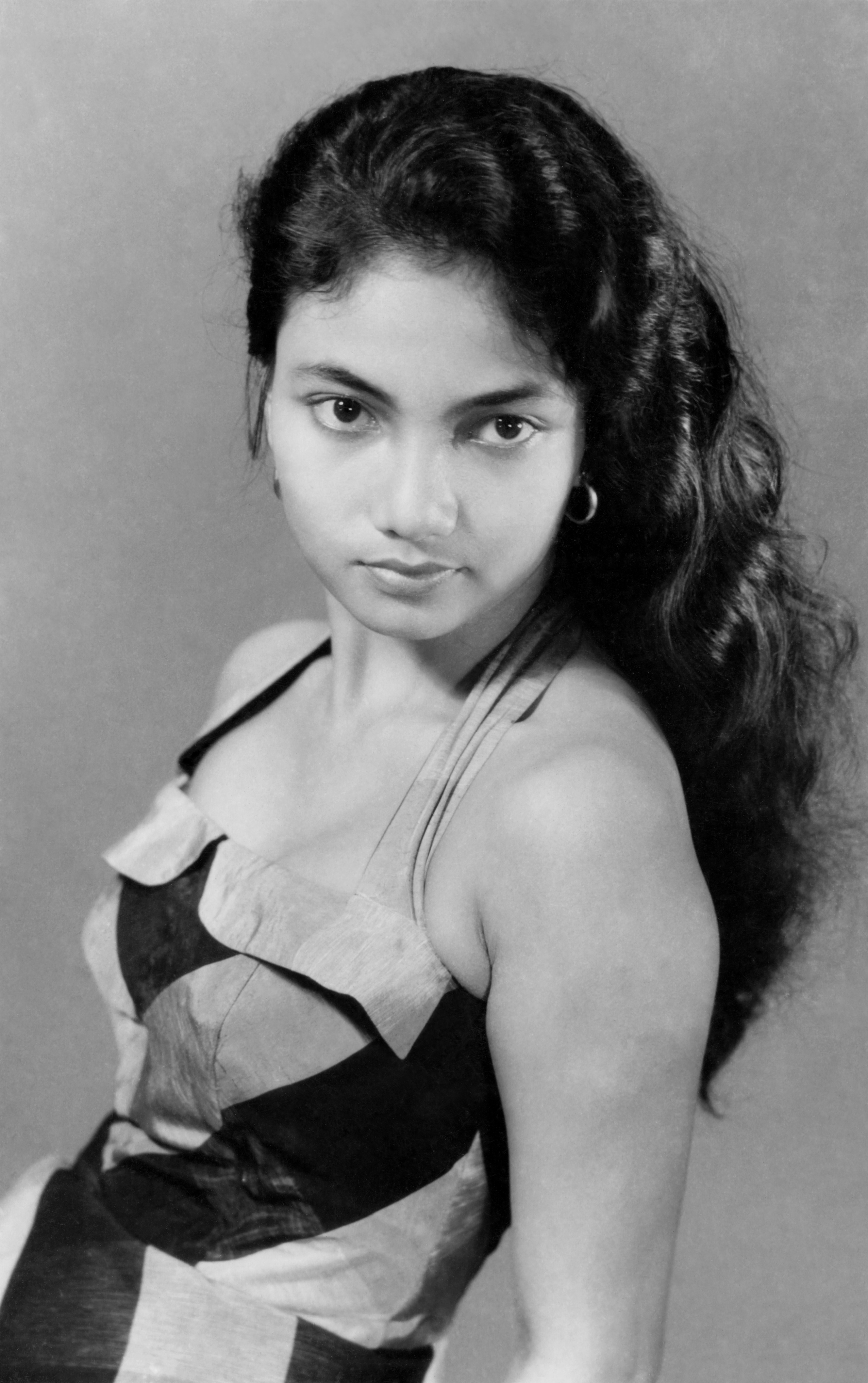 Indonesian actress Lies Noor (c. 1956) in a photograph from Djakartawood. The original is postcard sized. Restored from File:Lies Noor (c. 1956), Djakartawood - before restoration.jpg by Crisco 1492; name (apparently inked in on negative) removed for article viewing.